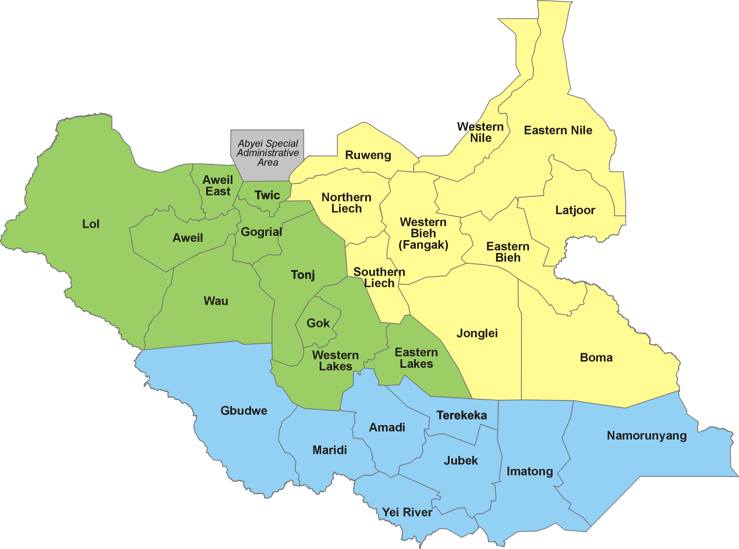 28 States of South Sudan within regions (historical provinces)